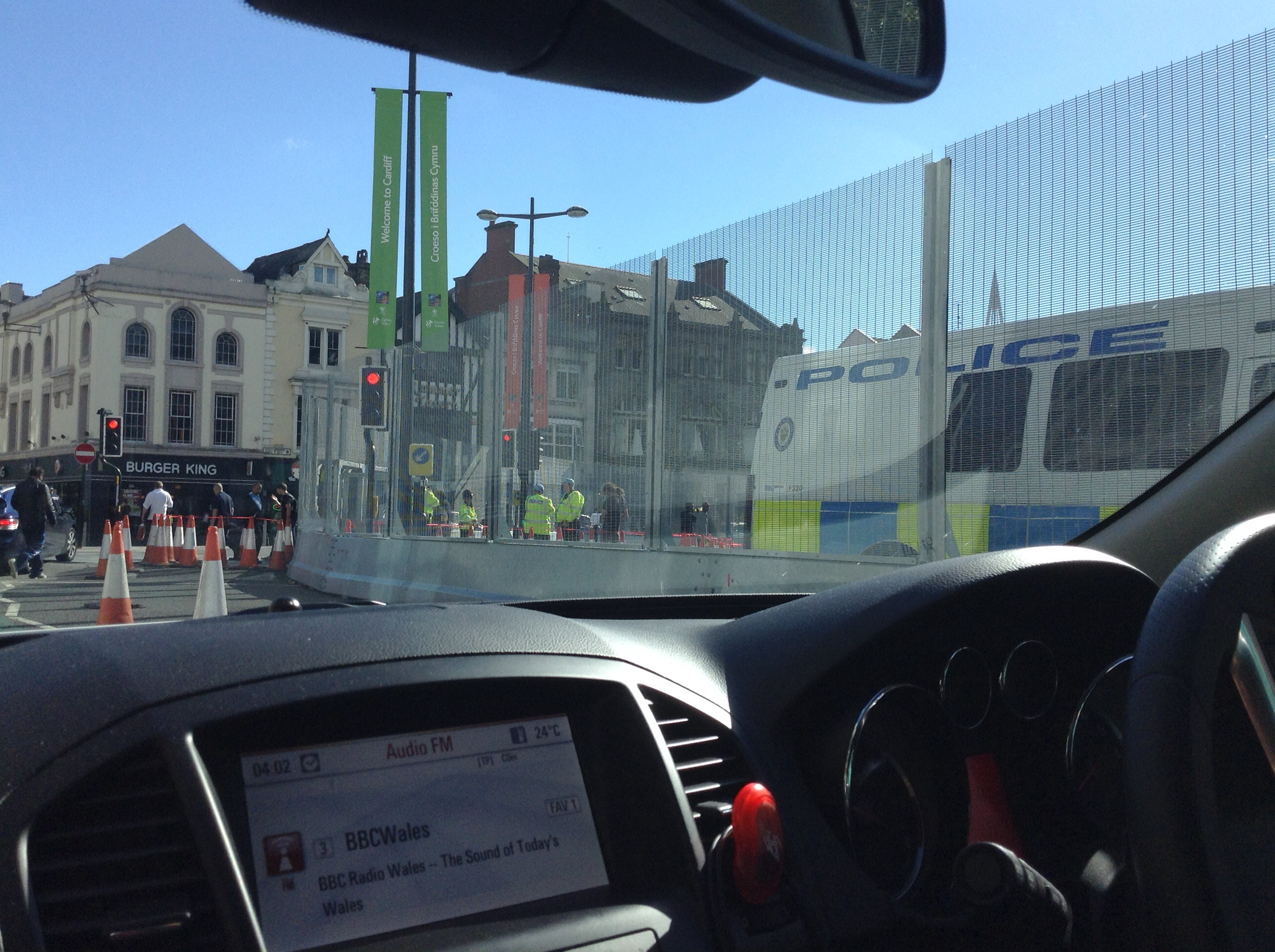 Police officers guarding the NATO Summit security wall, in Cardiff.